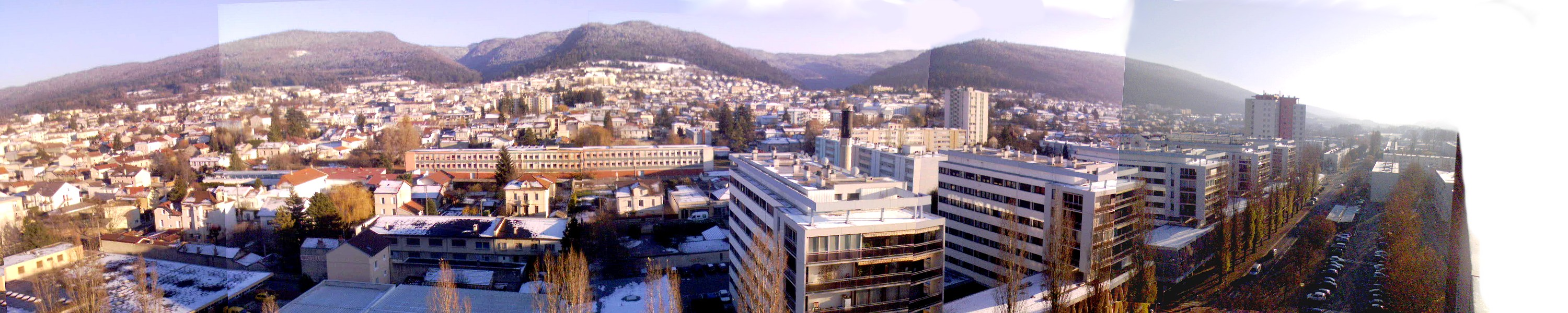 Oyonnax city